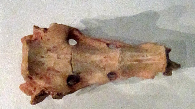 The vertebrae of land-dwelling mammals are fused together at the level of the hips. These are the sacral vertebrae, or sacrum. The sacrum is also joined firmly to the pelvis to anchor the hind legs. this is the sacrum of Sinonyx, consisting of three fused vertebrae.